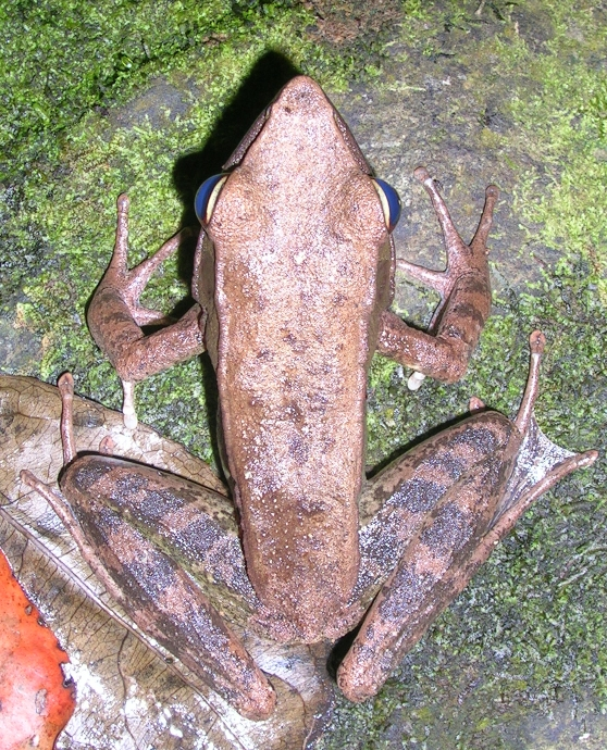 Rana curtipes, Bicolored frog, Wayanad, India